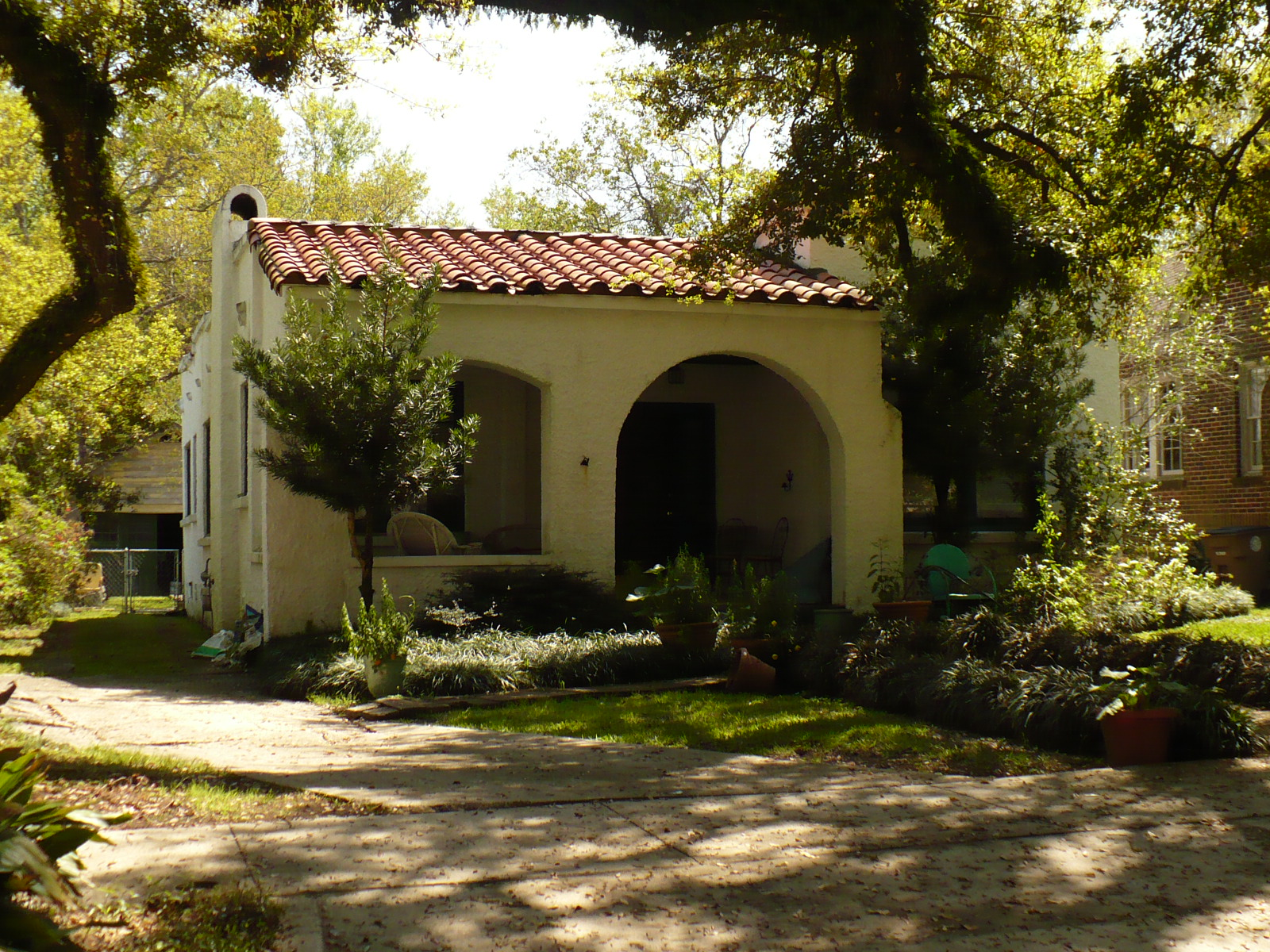 104 Florence Place in Mobile, Alabama. A modest example of Spanish Colonial Revival architecture of the Central Gulf Coast of the United States. Individually listed on the National Register of Historic Places.